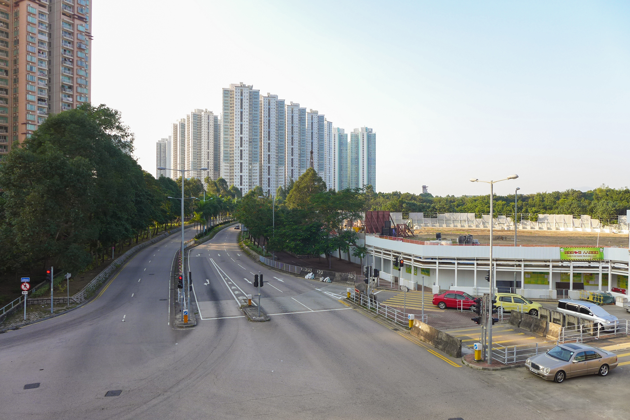 Wetland Park Road